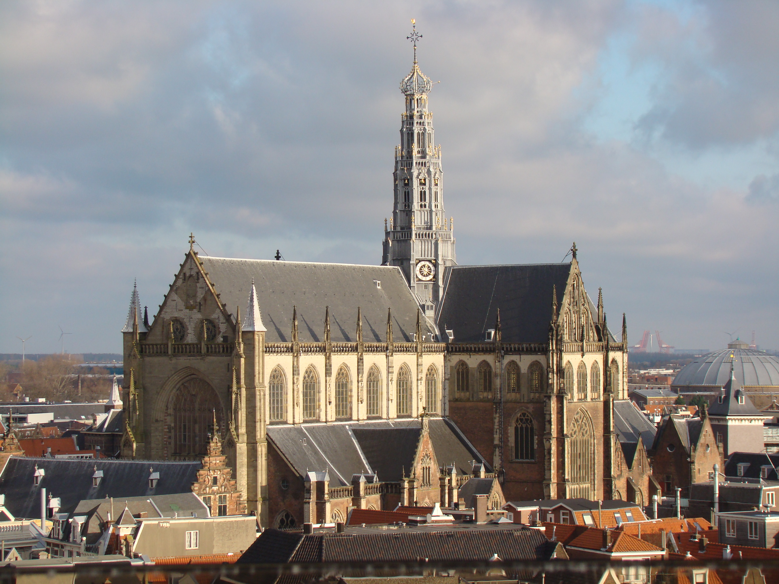 Bavochurch at Haarlem, Netherlands